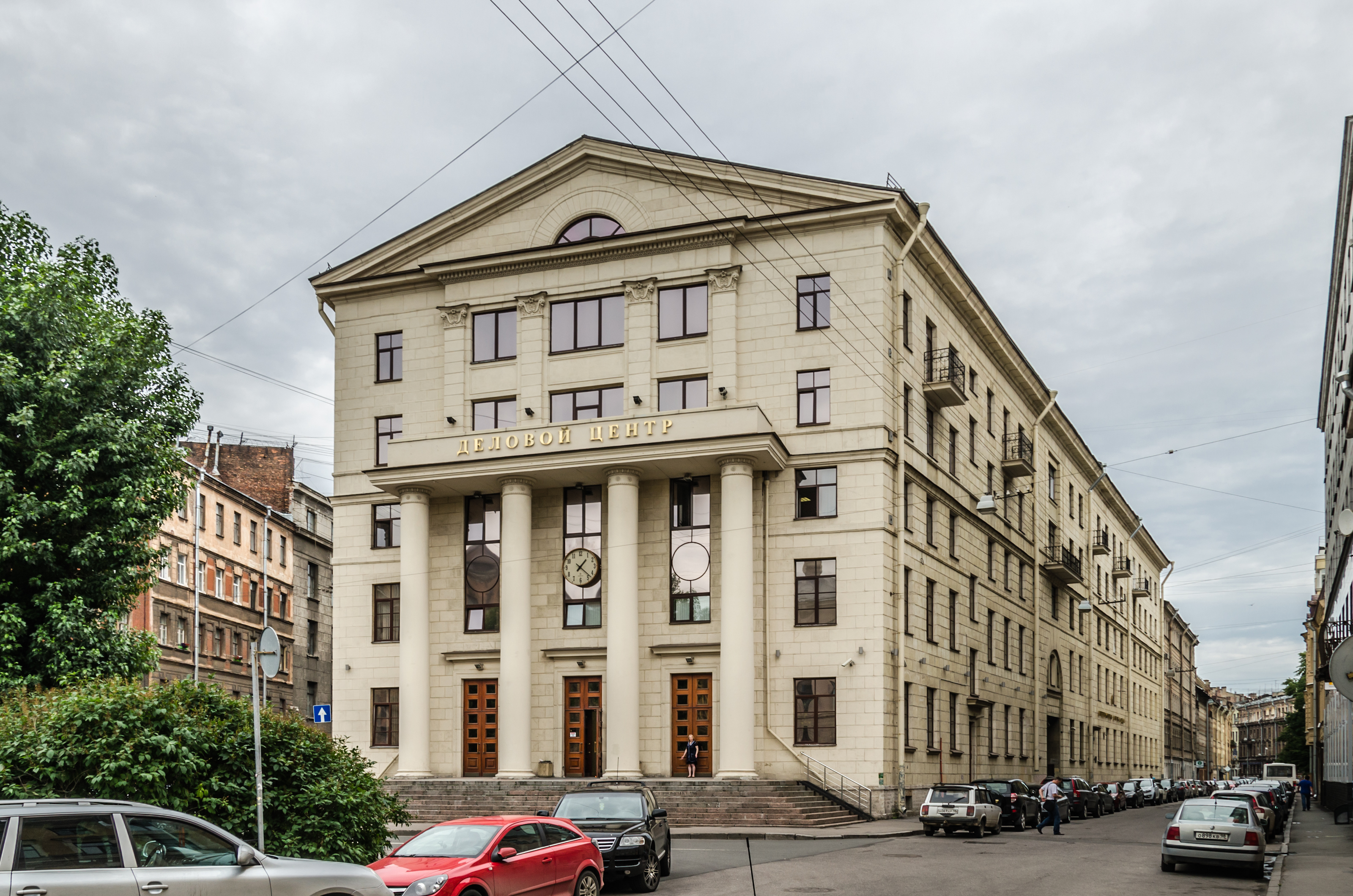 8, Blokhina street, Saint Petersburg, Russia